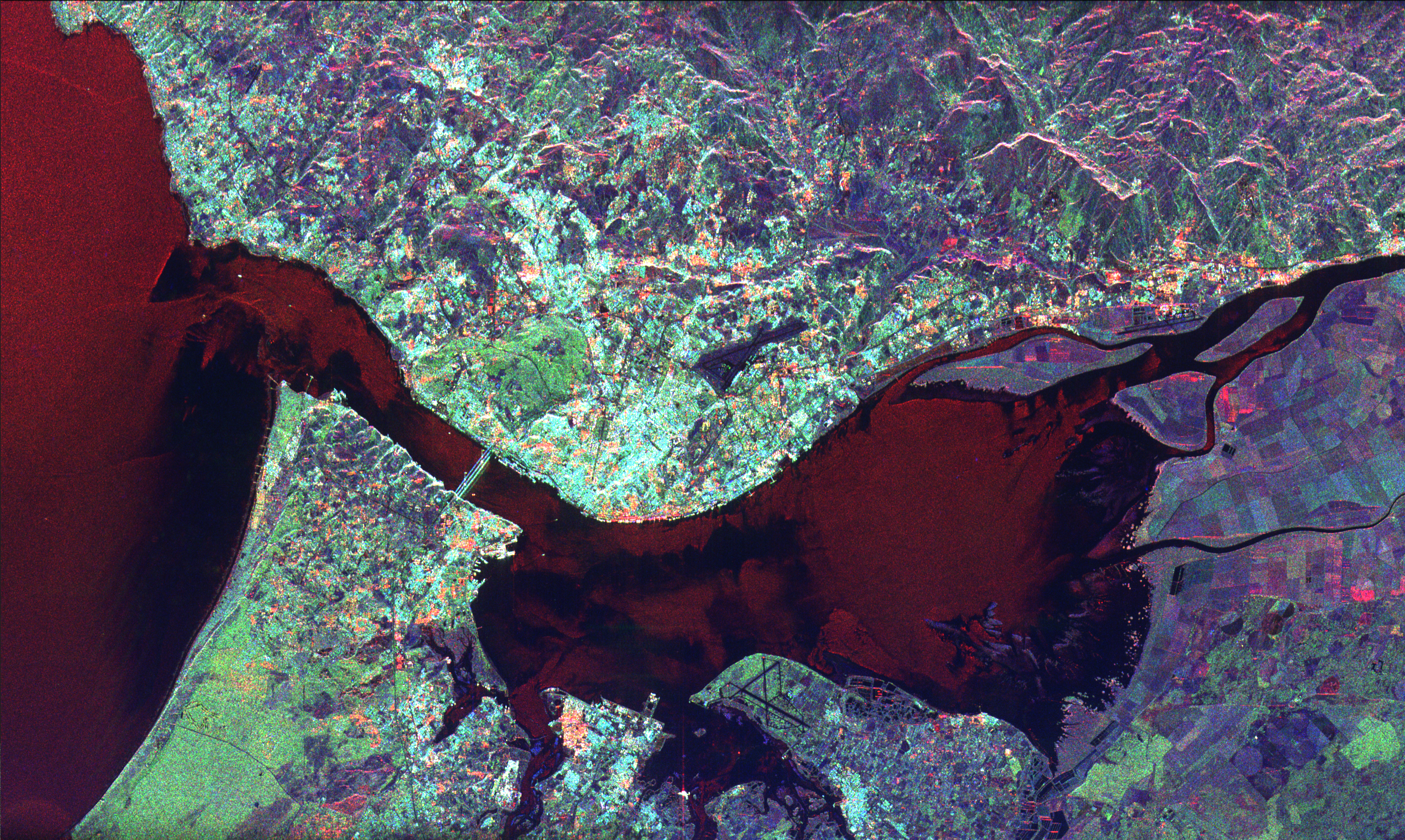 This radar image of Lisbon, Portugal illustrates the different land use patterns that are present in coastal Portugal. Lisbon, the national capital, lies on the north bank of the Rio Tejo where the river enters the Atlantic Ocean. The city center appears as the bright area in the center of the image. The green area west of the city center is a large city park called the Parque Florestal de Monsanto. The Lisbon Airport is visible east of the city. The Rio Tejo forms a large bay just east of the city. Many agricultural fields are visible as a patchwork pattern east of the bay. Suburban housing can be seen on the southern bank of the river. Spanning the river is the Ponte 25 de Abril, a large suspension bridge similar in architecture to San Francisco's Golden Gate Bridge. The image was acquired on April 19, 1994 and is centered at 38.8 degrees north latitude, 9.2 degrees west longitude. North is towards the upper right. The image is 50 kilometers by 30 kilometers (31 miles by 19 miles). The colors in this image represent the following radar channels and polarizations: red is L-band, horizontally transmitted and received; green is L-band, horizontally transmitted and vertically received; and blue is C-band, horizontally transmitted and vertically received. SIR-C/X-SAR, a joint mission of the German, Italian, and the United States space agencies, is part of NASA's Mission to Planet Earth.